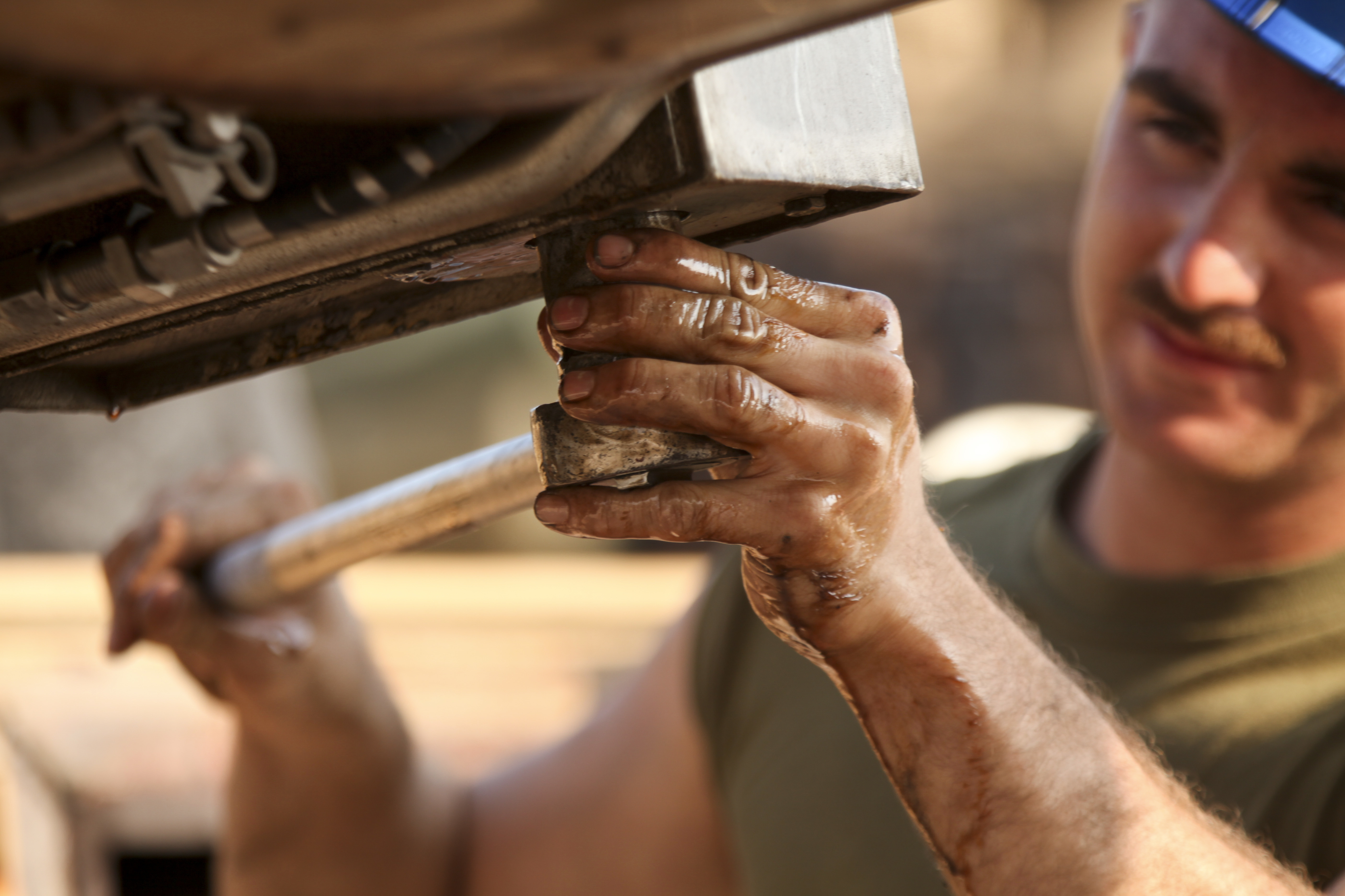 Lance Cpl. Ryan Foster, a tank crewman with Tank Platoon, Battalion Landing Team 2/6, 26th Marine Expeditionary Unit, uses a ratchet to loosen a nut from a tank's engine Dec. 4, 2015 in the 5th Fleet area of operations. The 26th MEU is embarked with the Kearsarge Amphibious Ready Group and is deployed to maintain regional security in the U.S. 5th Fleet area of operations. (U.S. Marine Corps photo by Staff Sgt. Bobby J. Yarbrough/Released) Unit: 26th Marine Expeditionary Unit